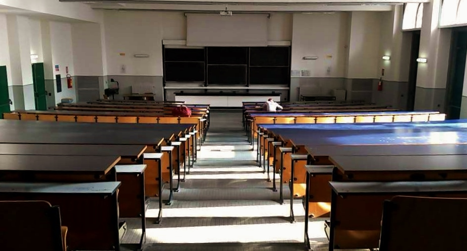 Inside of the classroom Oscar Chisini of the mathematics department of UNIMI in Milan, via Cesare Saldini 50.